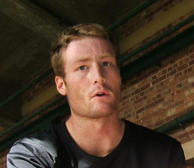 Martin Guptill at a training session at the Adelaide Oval